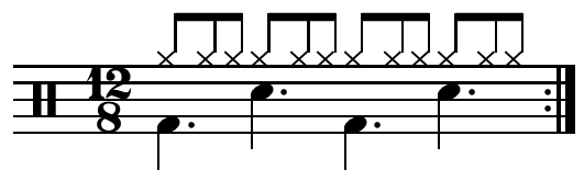 Compound quadruple drum pattern: divides four beats into three. Created by Hyacinth (talk) 10:24, 25 November 2010 using Sibelius 5.